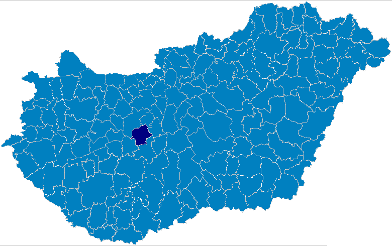 Location of Aba Subregion in Hungary